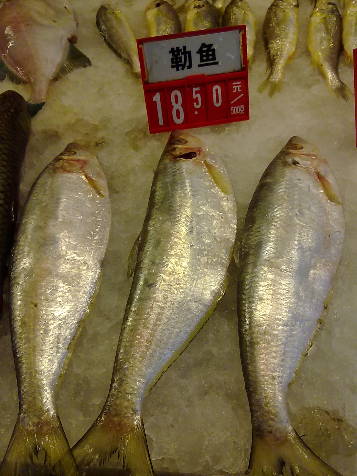 Elongate ilisha, Ilisha elongata (Chinese: 勒鱼, lèyú), on sale in a supermarket in Yuhuan, Zhejiang, PR China